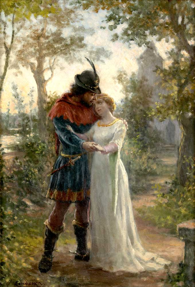 Peter and Inês, by Ernesto Condeixa